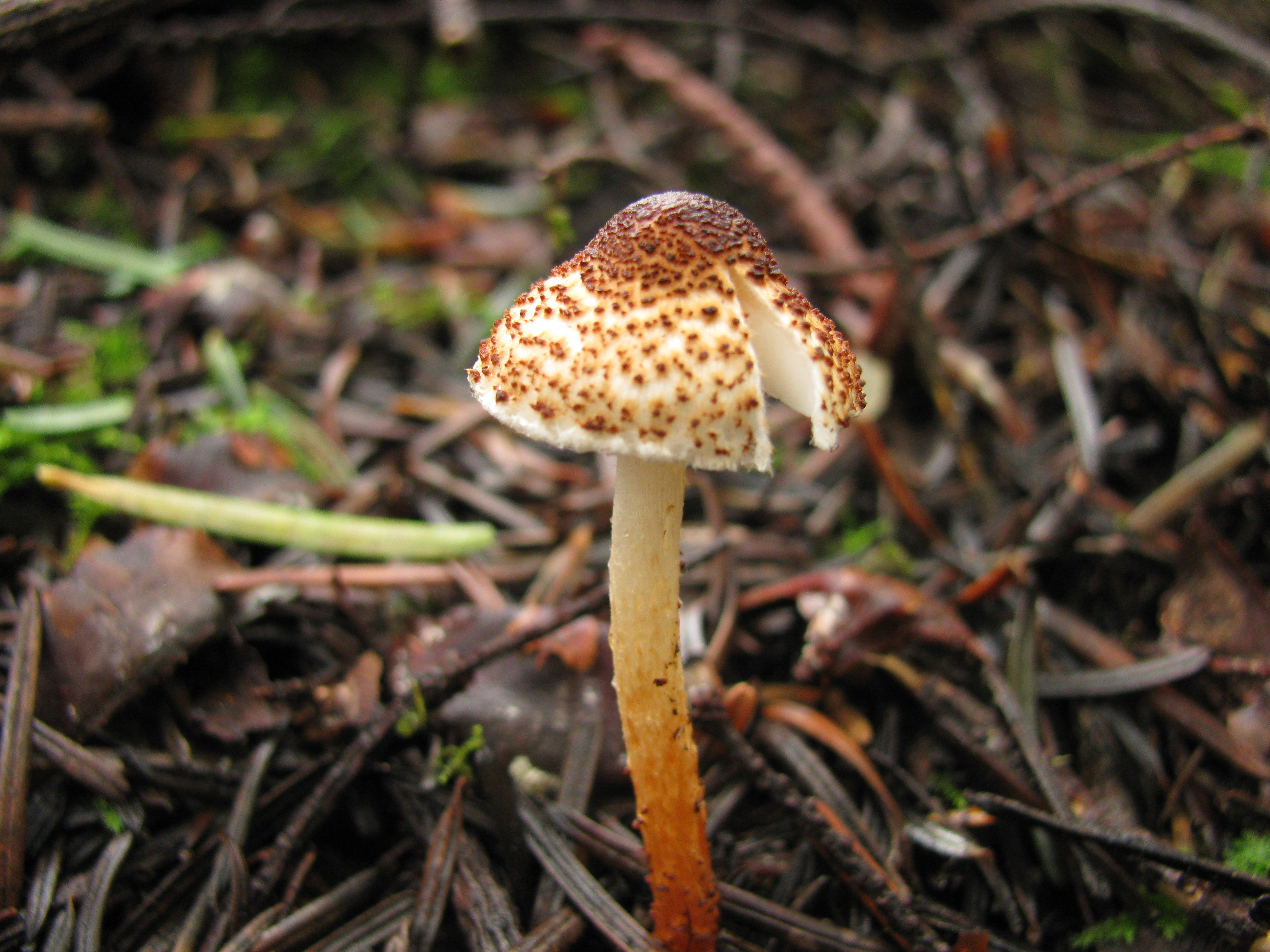 A fruit body (mushroom) of the fungus Lepiota castanea Quél. Specimen photographed in Caspar, Mendocino County, California, USA.